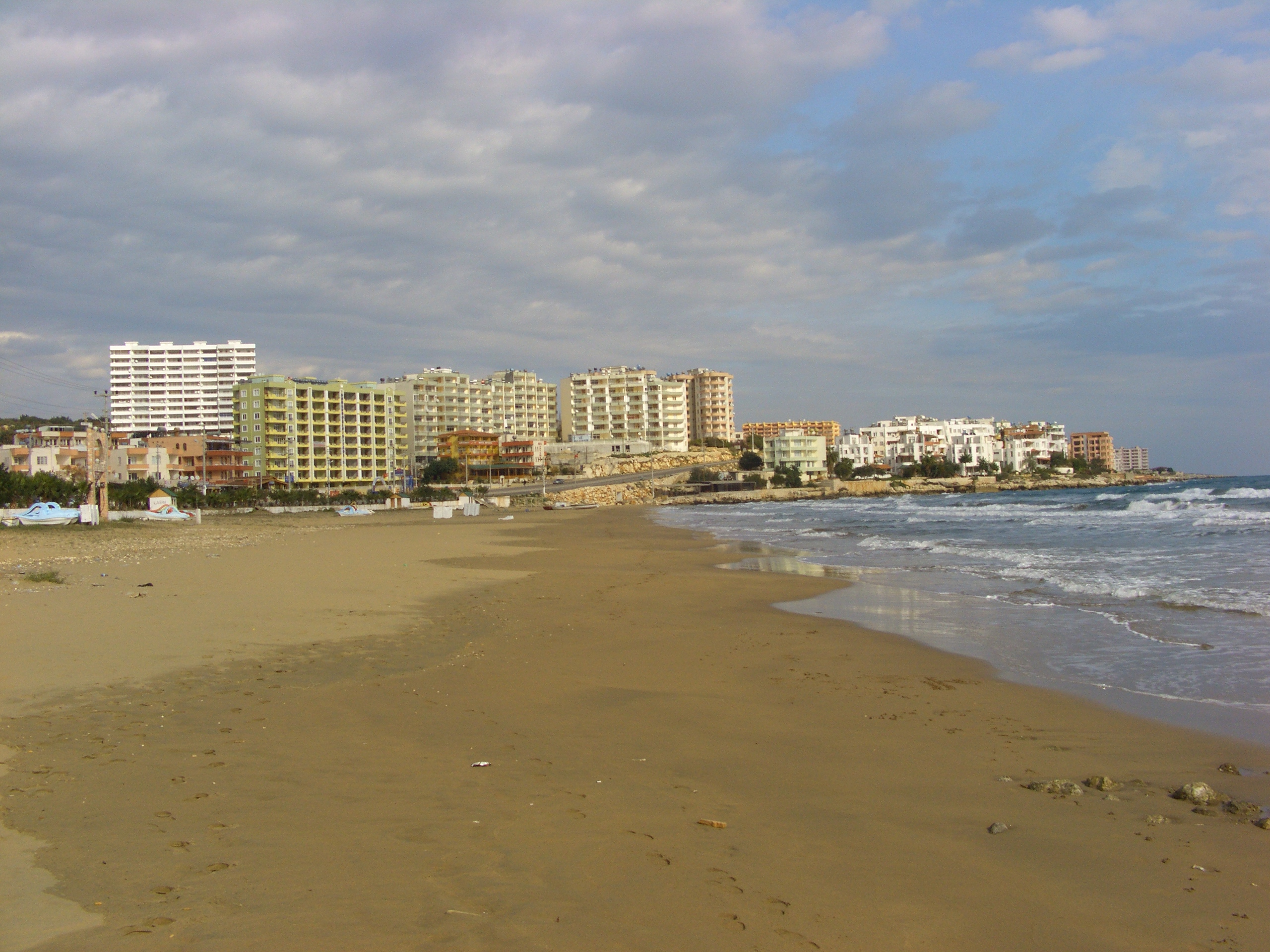 Yemişkumu is a small seaside town in the Eastern Mediterranean Region of Turkey. The town is 15 km away from Erdemli District of Mersin Province in the West. In Summer it is mainly preferred by the domestic tourists from Adana, Mersin and Gaziantep provinces. The population increases up to 20.000-30.000 inhabitants in Summer months. Photo taken by User:Zcebeci